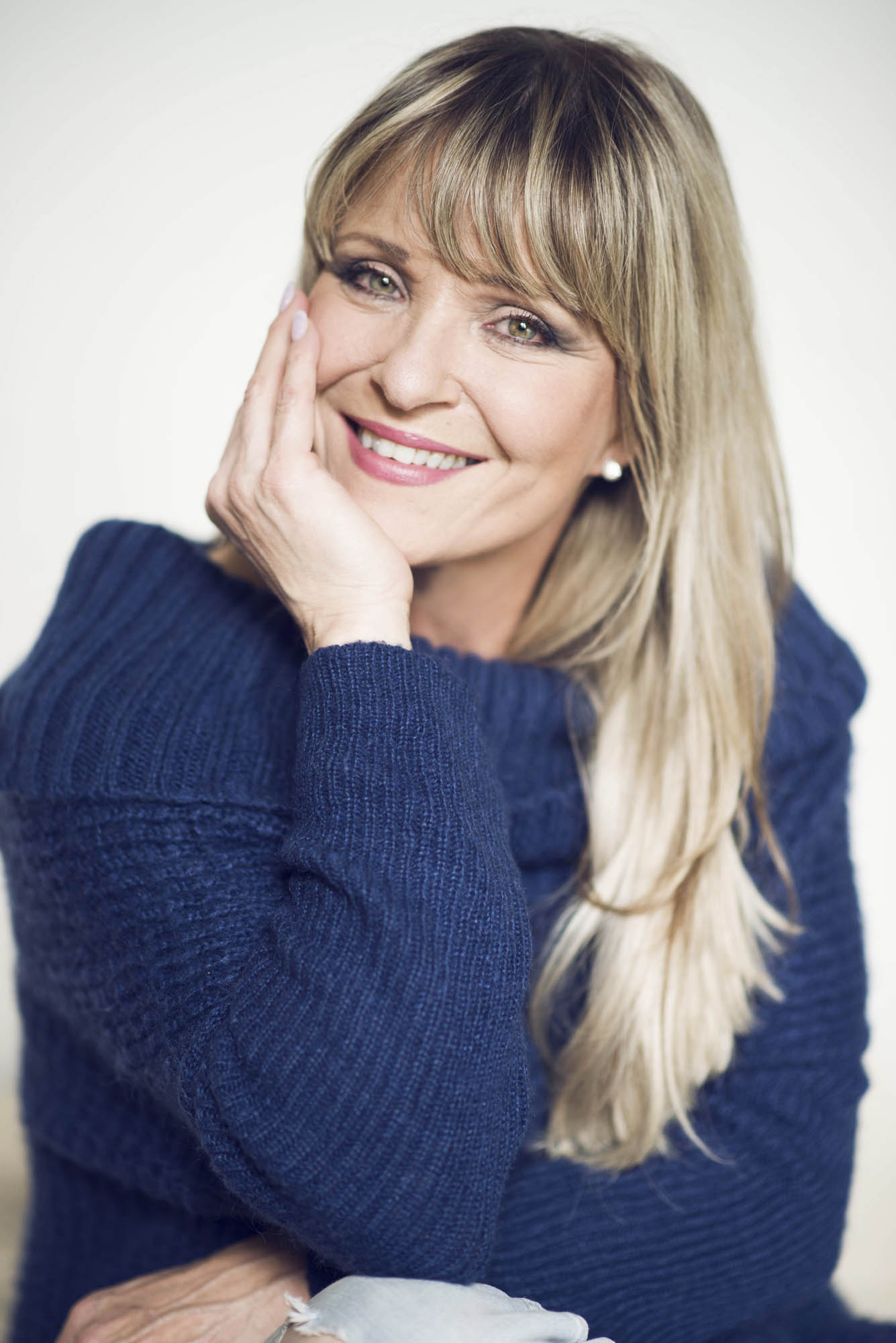 Chantal.pp